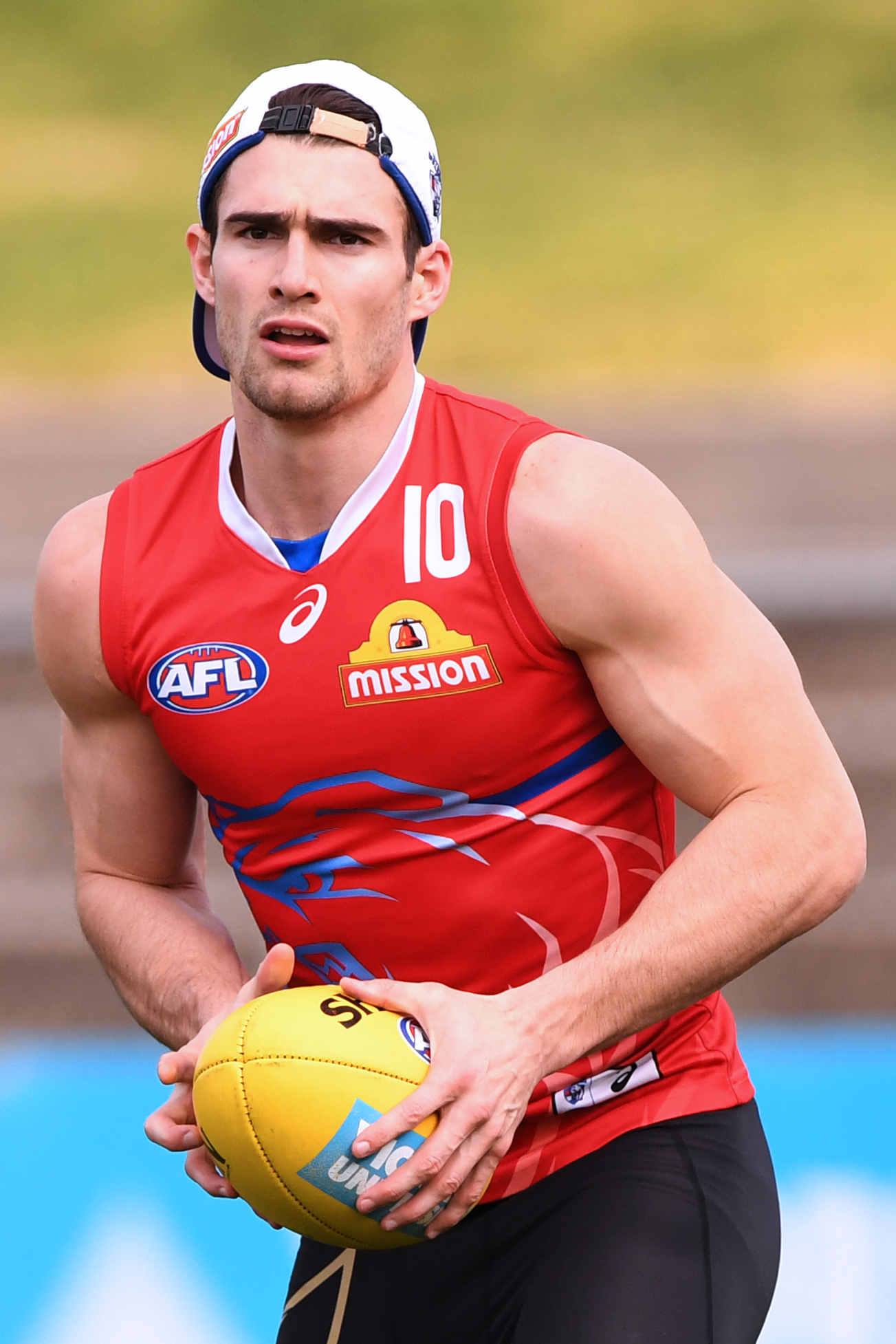 Easton Wood of the Western Bulldogs kicking marking during Western Bulldogs training on 7 August 2018 at Whitten Oval in Melbourne, Victoria.